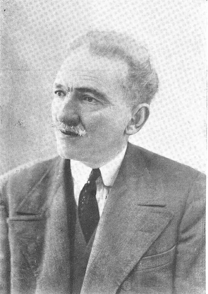 Ildebrando Cocconi